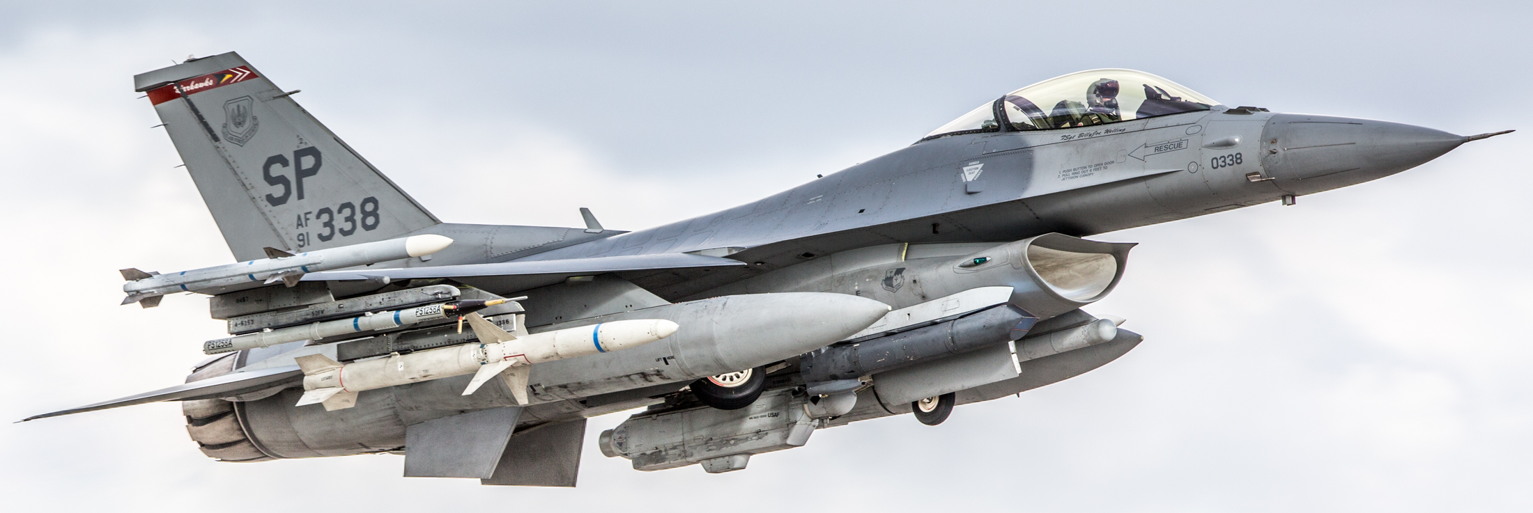 Take-off at Beja Air Base, Portugal. Another mission for Exercise Trident Juncture 2015. A US F-16. Photo: Christian Timmig, NMIC TRJE15, Beja